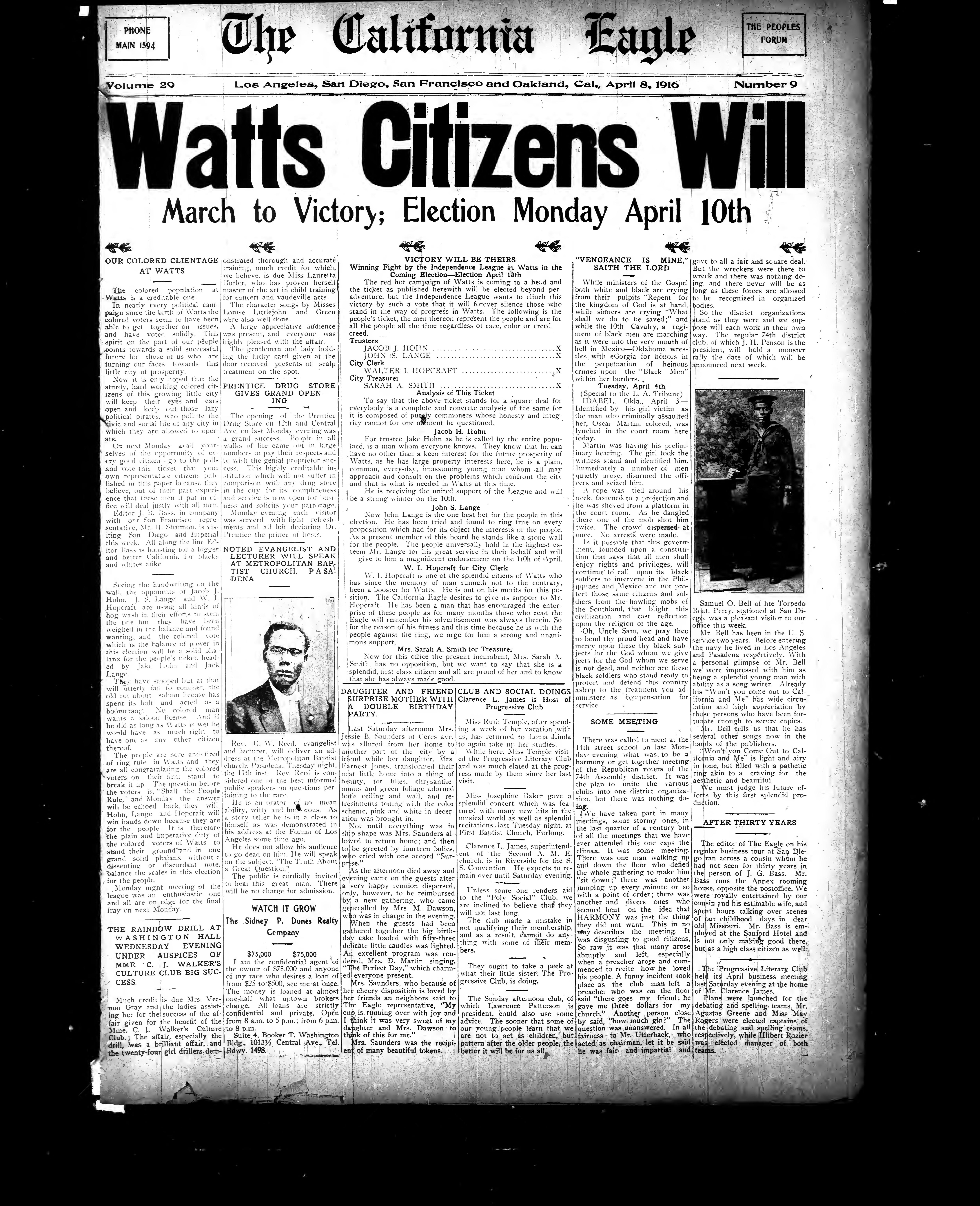 Front page of ' from April 8, 1916. Headline reads "Watts Citizens Will March To Victory; Election Monday April 10th".